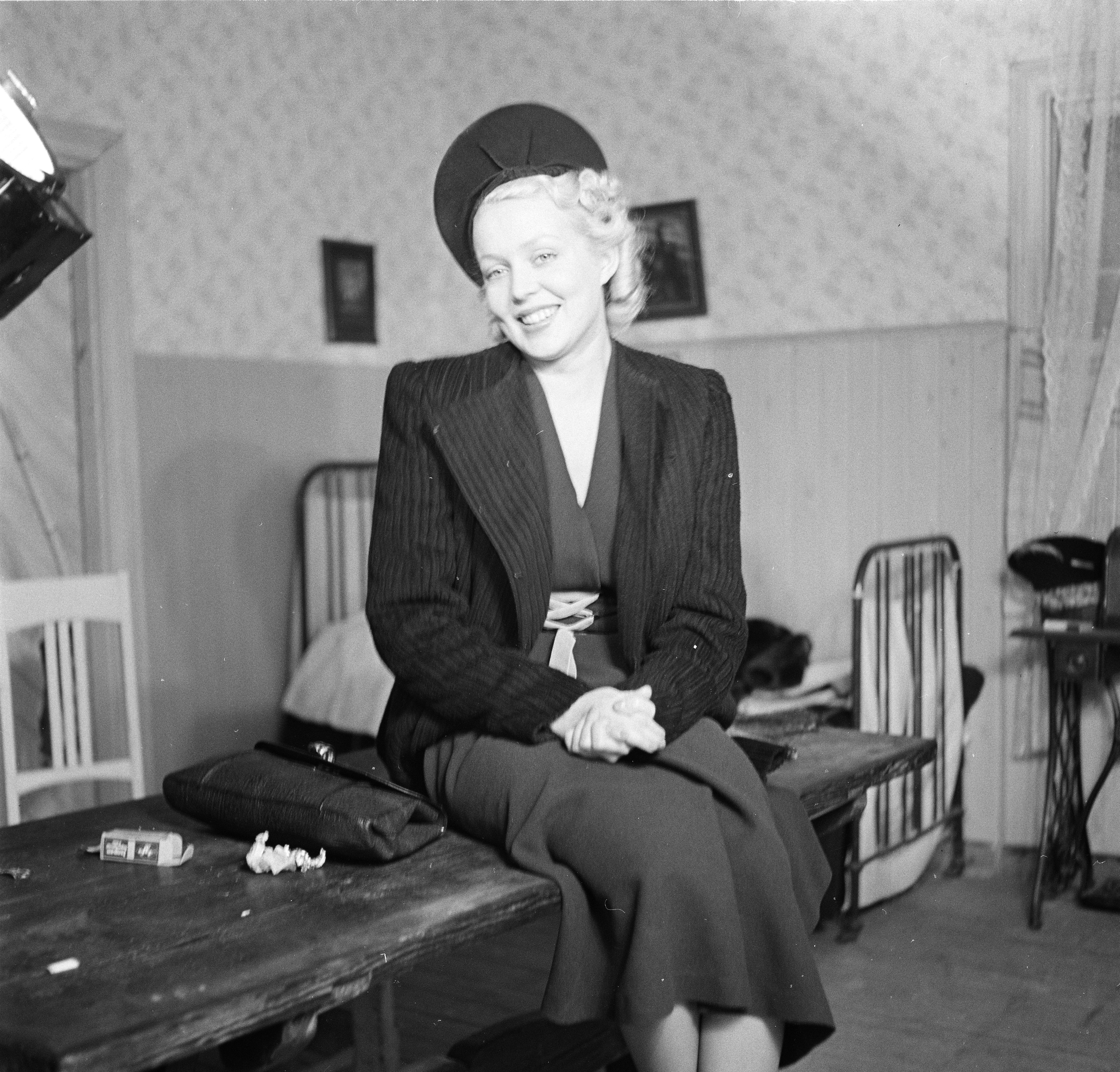 Photograph of the Finnish actress Helena Kara (1916–2002).